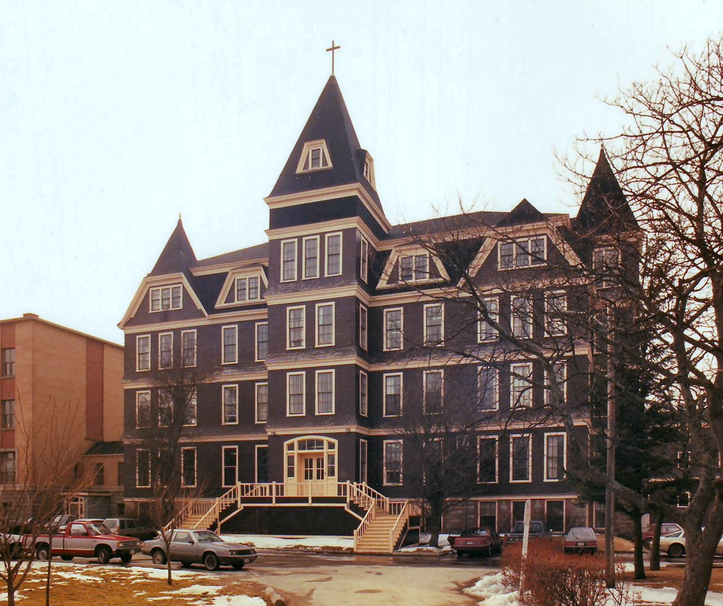 Photo of the main building at Université Sainte-Anne, Church Point, Nova Scotia. Photo was taken ca. 1995. It was scanned from a print and modified in Paint Shop Pro to remove parallax and improve contrast.